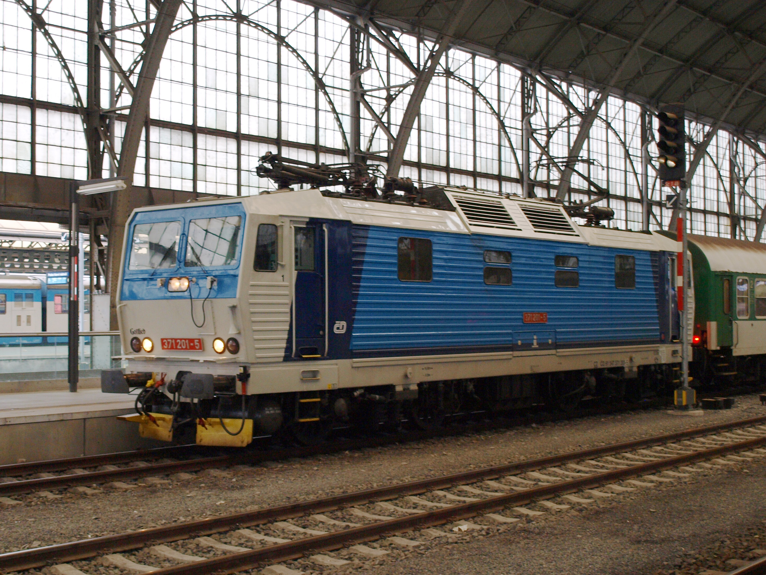 CD 371 201 at Prague main station